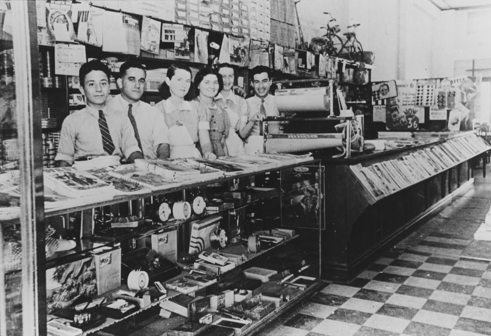 Staff behind the counter of Logos Brothers' Central Cafe and Store, Blackall, ca. 1939